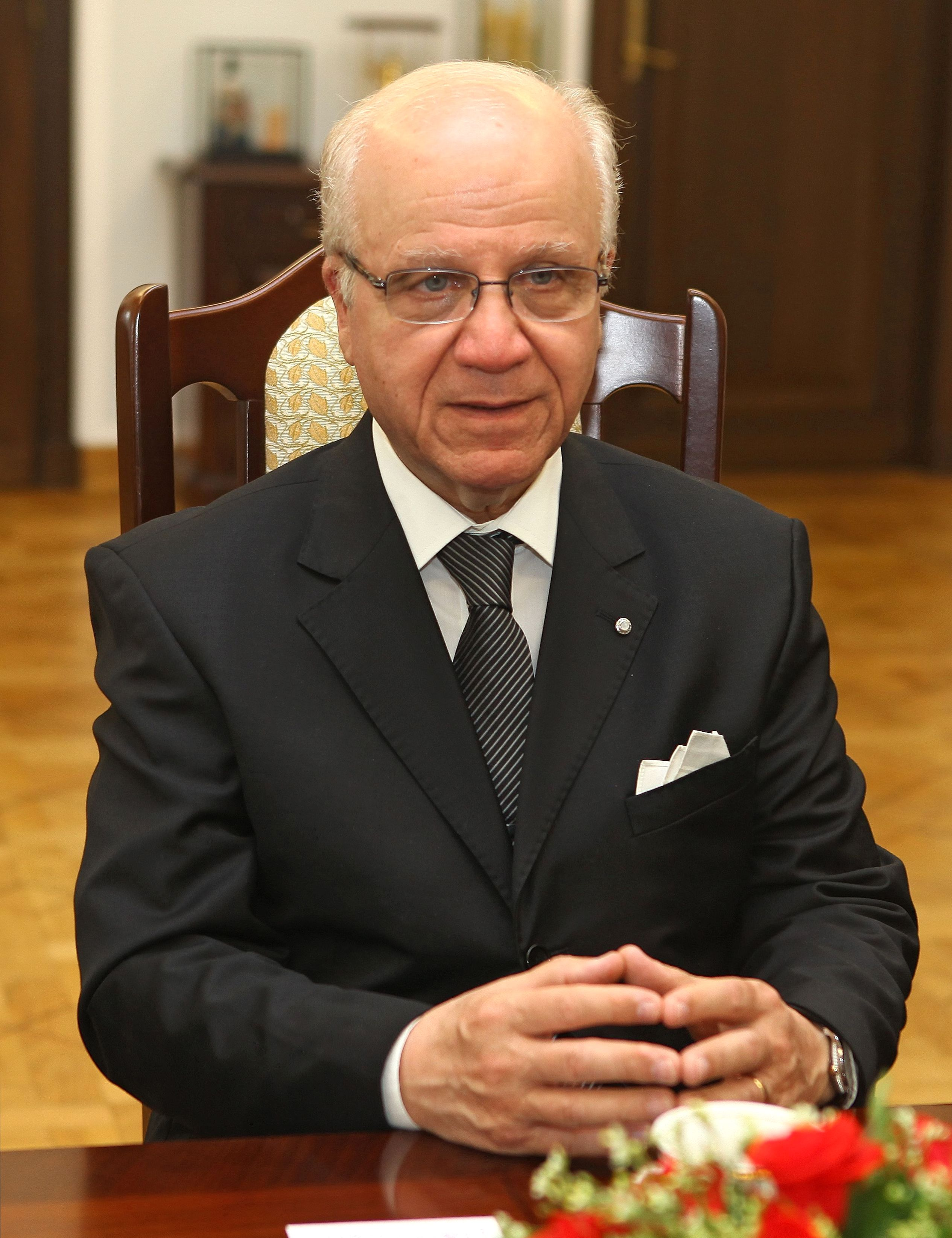 Minister of Foreign Affairs of Algeria Mourad Medelci in the Polish Senate